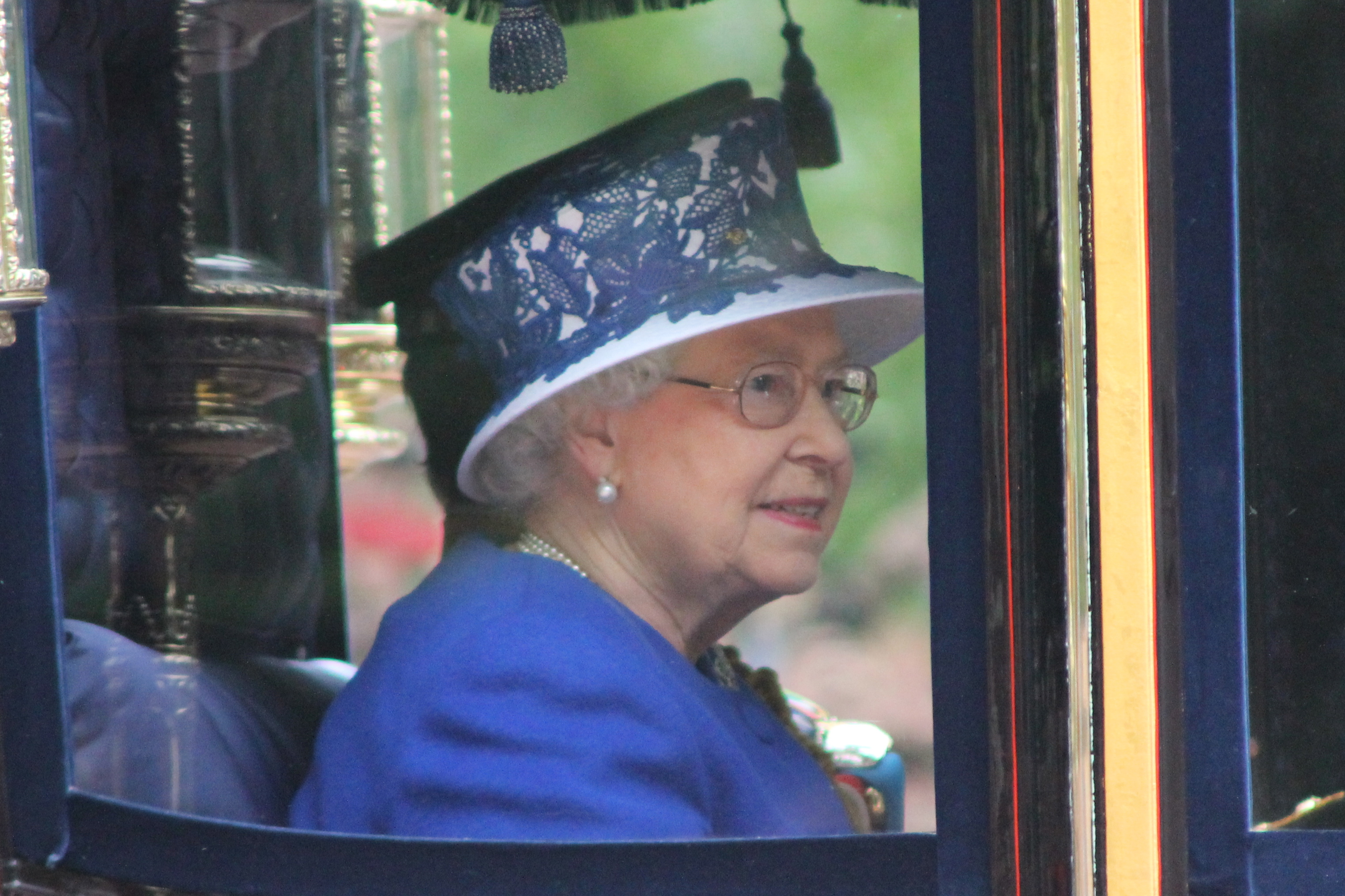 The Queen in the Glass Coach, Trooping the Colour, June 2013